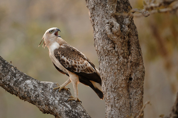 Crested hawk eagle photographed in Nagerhole.